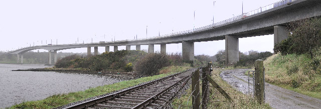 Foyle Bridge, Londonderry, from underneath.